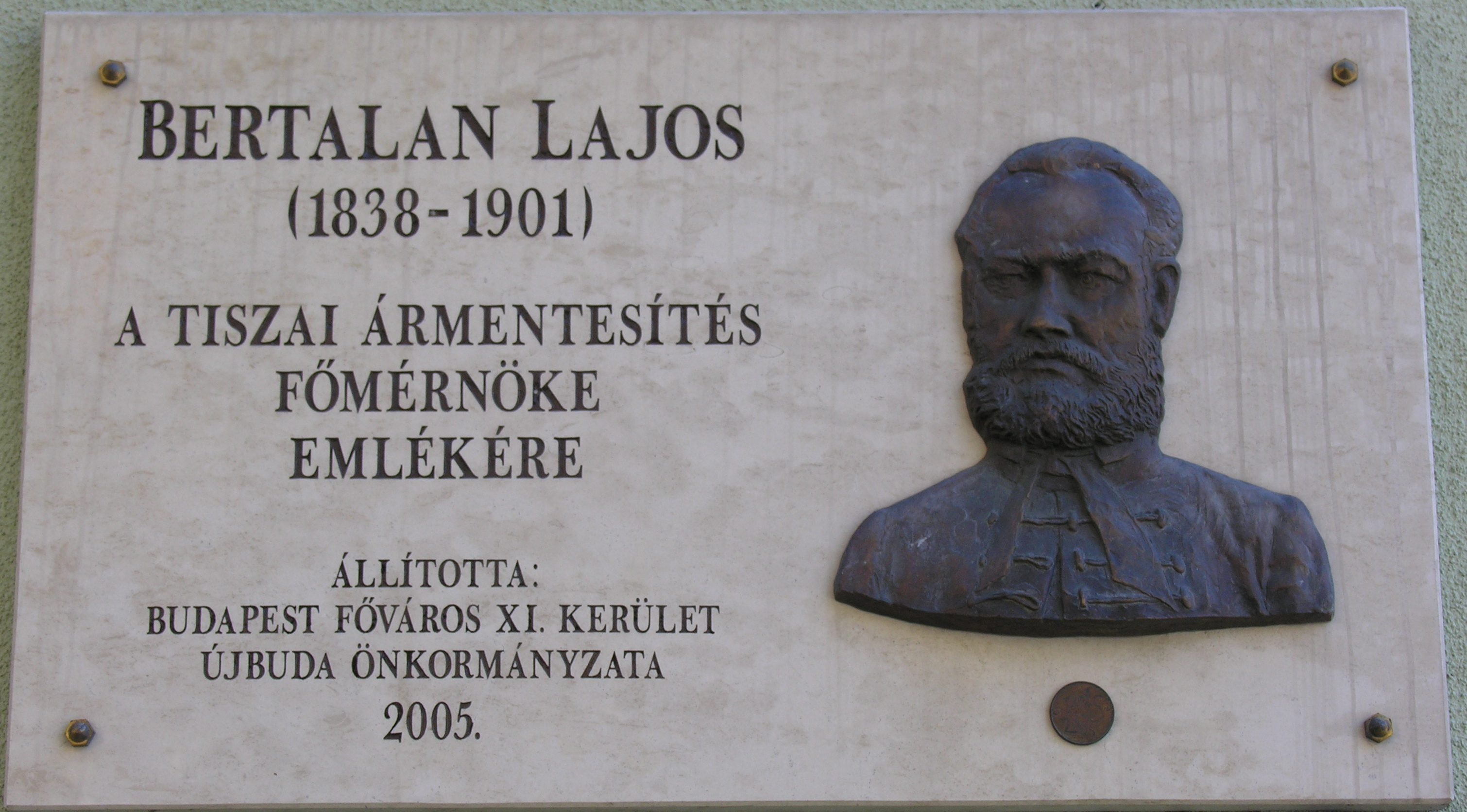 Commemorative plaque of Lajos Bertalan, Budapest District XI, Bertalan Lajos Street No 28